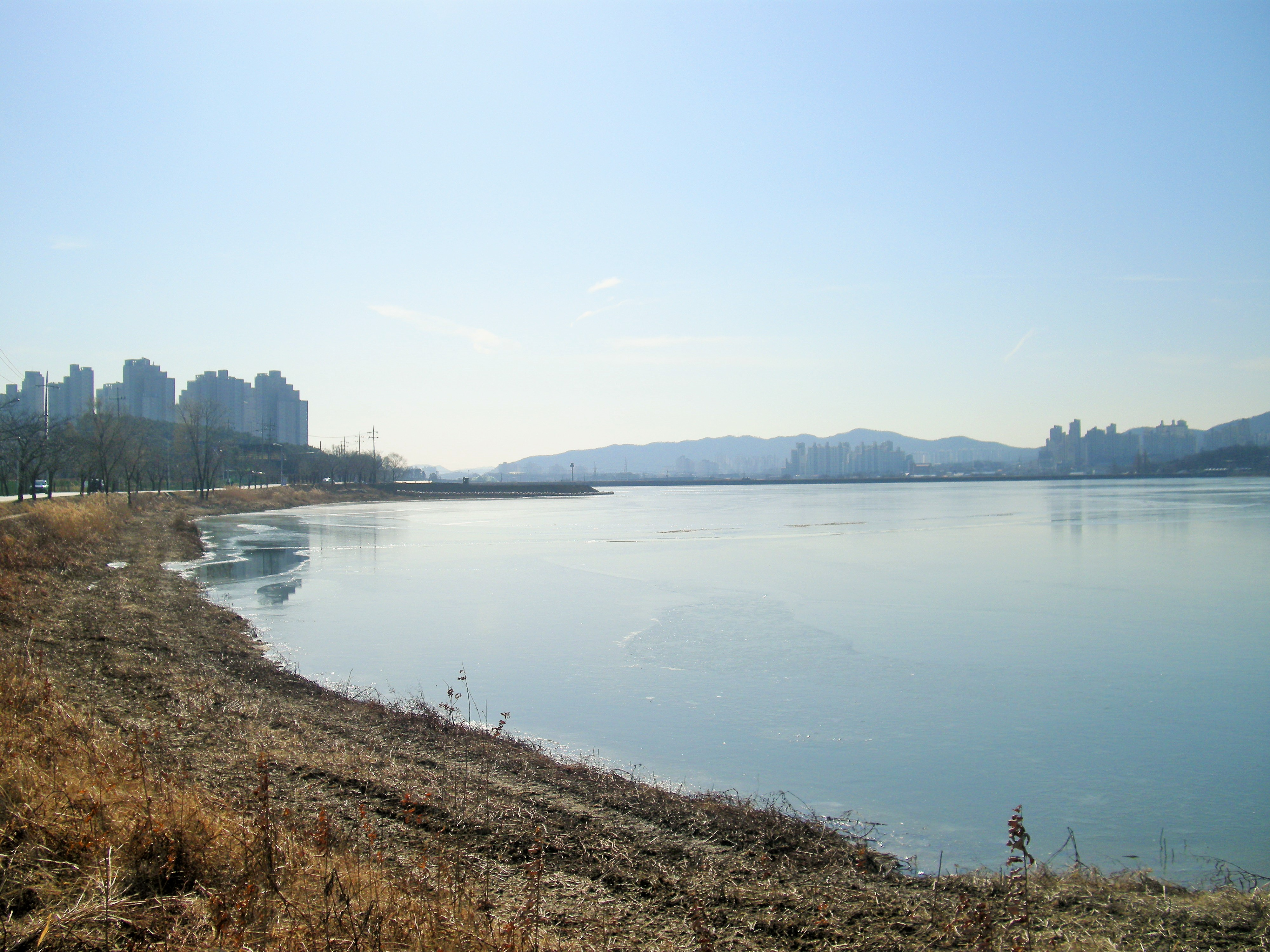 Wangsong Lake (former Wangsong Reservoir) in Uiwang-si, Gyeonggi-do